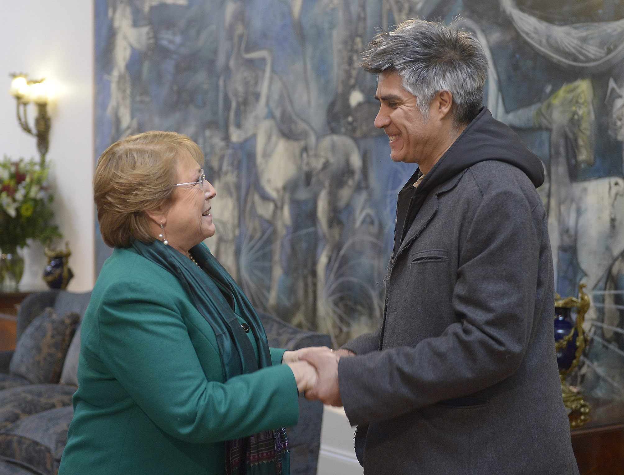 Architect Alejandro Aravena and Presedent of Chile Michelle Bachelet